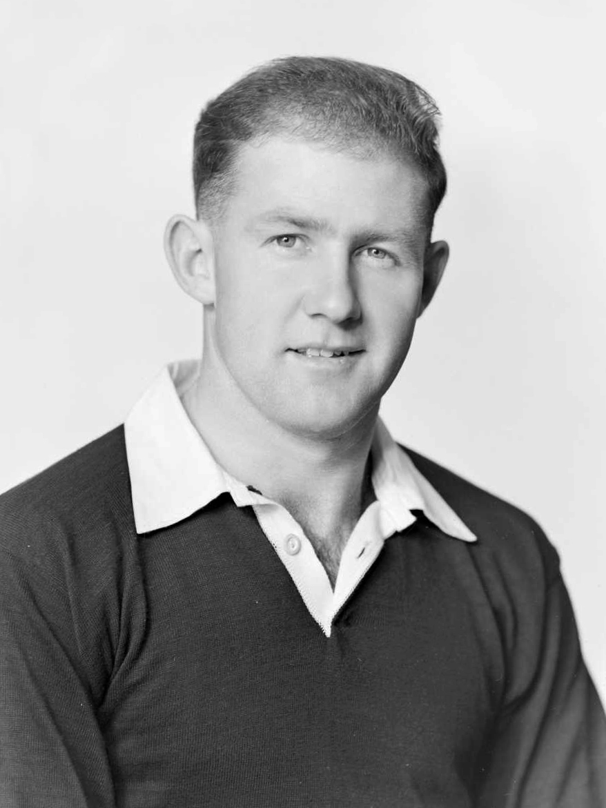 R F McMullen, 1956 New Zealand All Black rugby union trialist